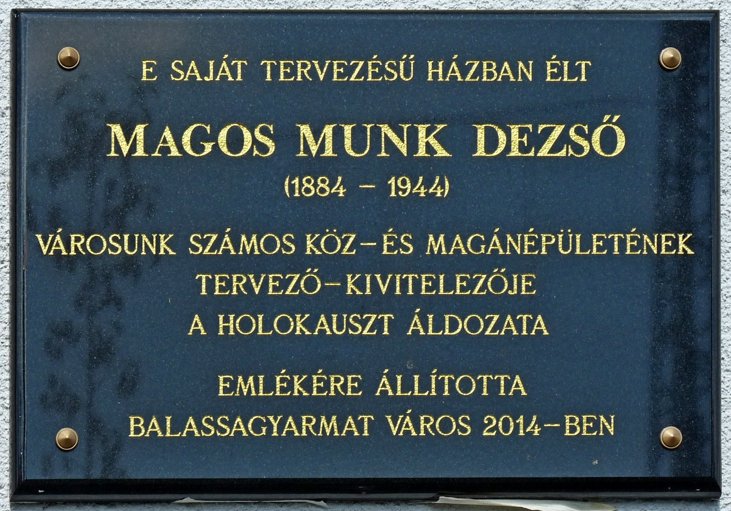 Commemorative plaque to Mr. Dezső Magos (Munk) (1884-1944) Hungarian architect, constructor of many public and private buildings, Holocaust Victim. It is affixed to the wall of his old residence. (Balassagyarmat, Szent Imre Street Nr 26)